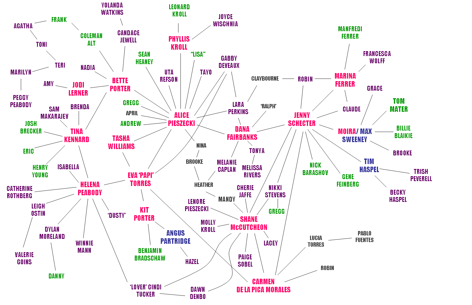 An excerpt from the chart as of Episode 6.02:Least Likely, showing part of the relationships mentioned or established along The L Word. Pink represents main female characters; blue represents main male characters; green and purple represent minor male and female characters; and gray represents characters that are only alluded to, but never shown.